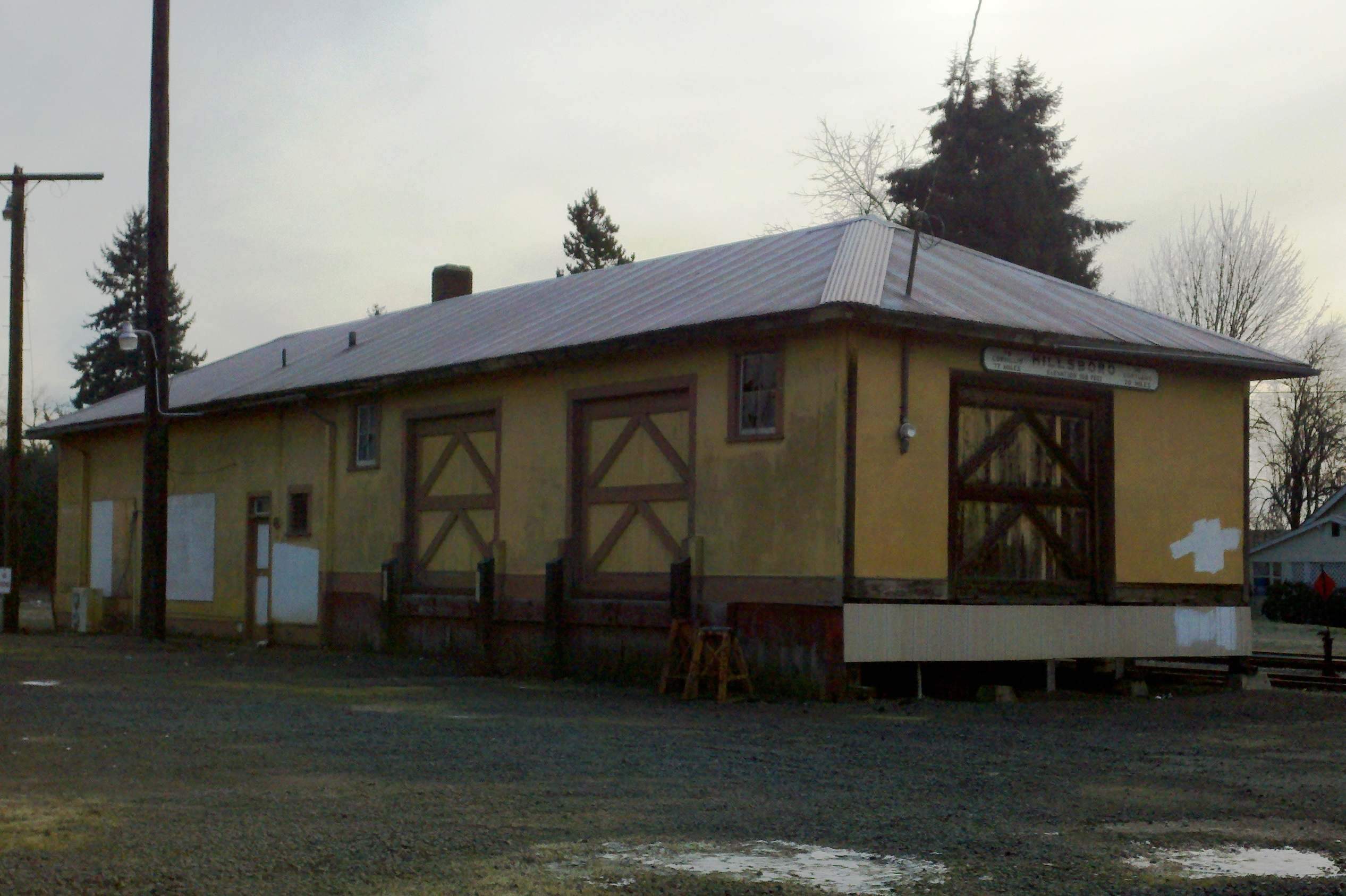 Former Red Electric and Southern Pacific train depot in Hillsboro, Oregon, off First Street.